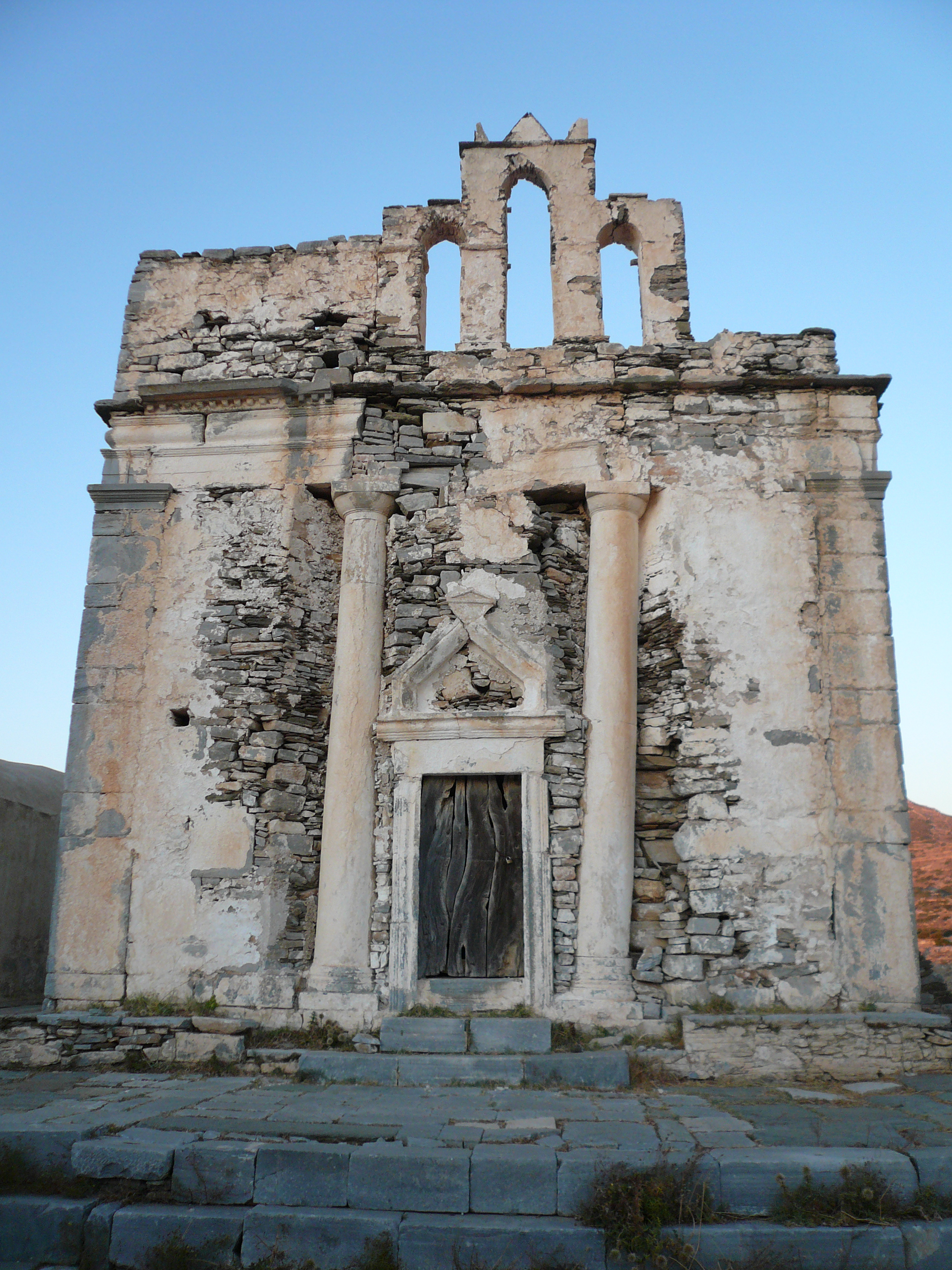 Sikinos Monastery of Episkopi -Frontage«Ναός Επισκοπής Σικίνου»